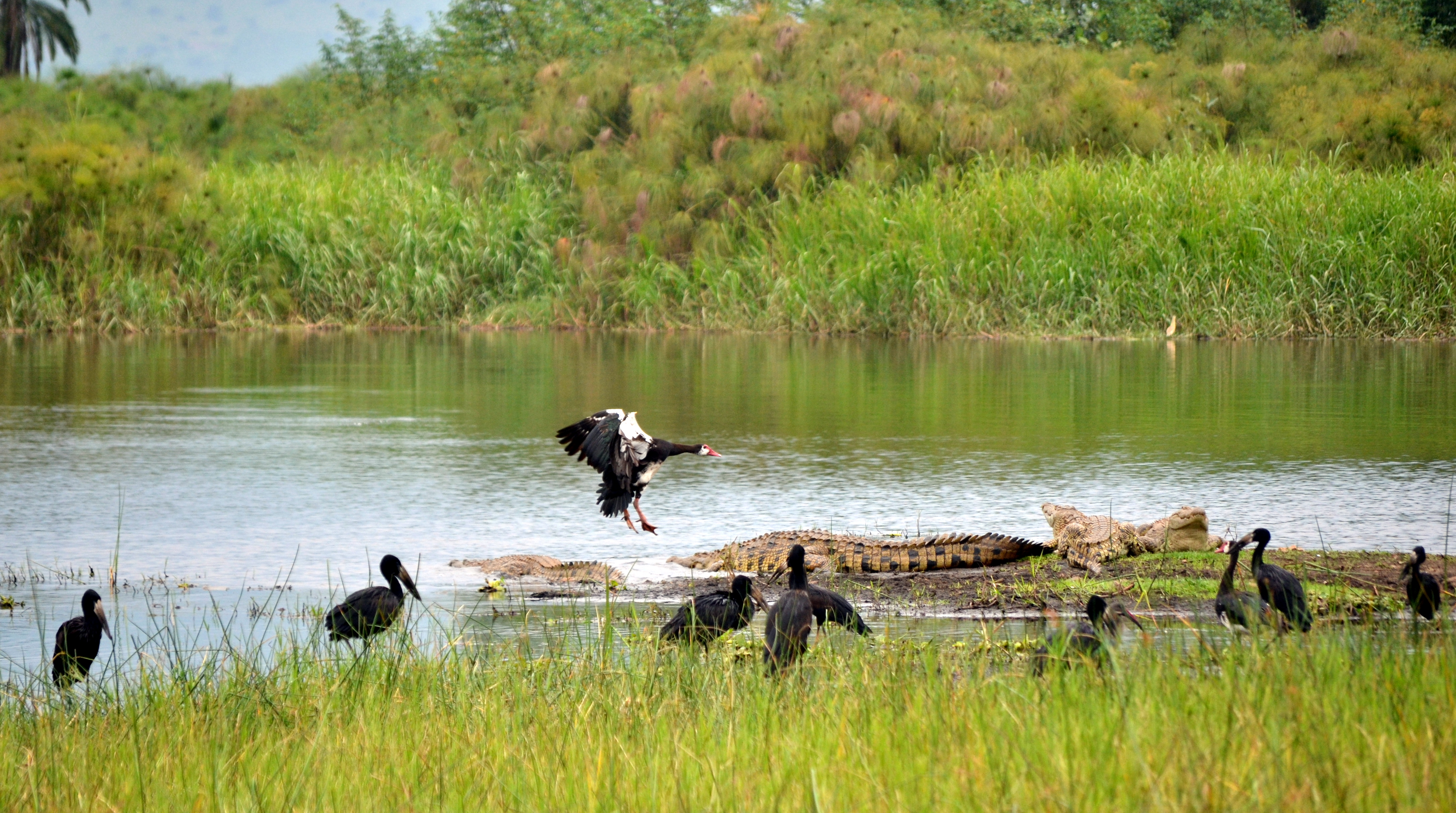 Plectropterus gambensis (in flight) and Anastomus lamelligerus (on ground), Akagera National Park, Rwanda